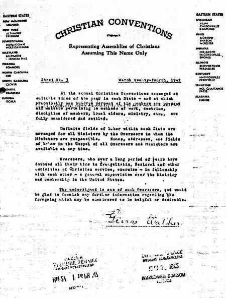 Scan of page 3 of the official statement by George Walker of the Christian Conventions to the US Selective Service. Public record.